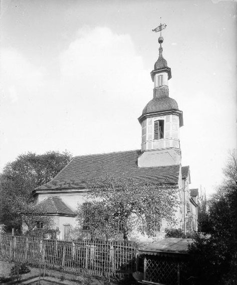 The old Connewitzer Church in Leipzig-Connewitz, Prinz-Eugen-Strasse